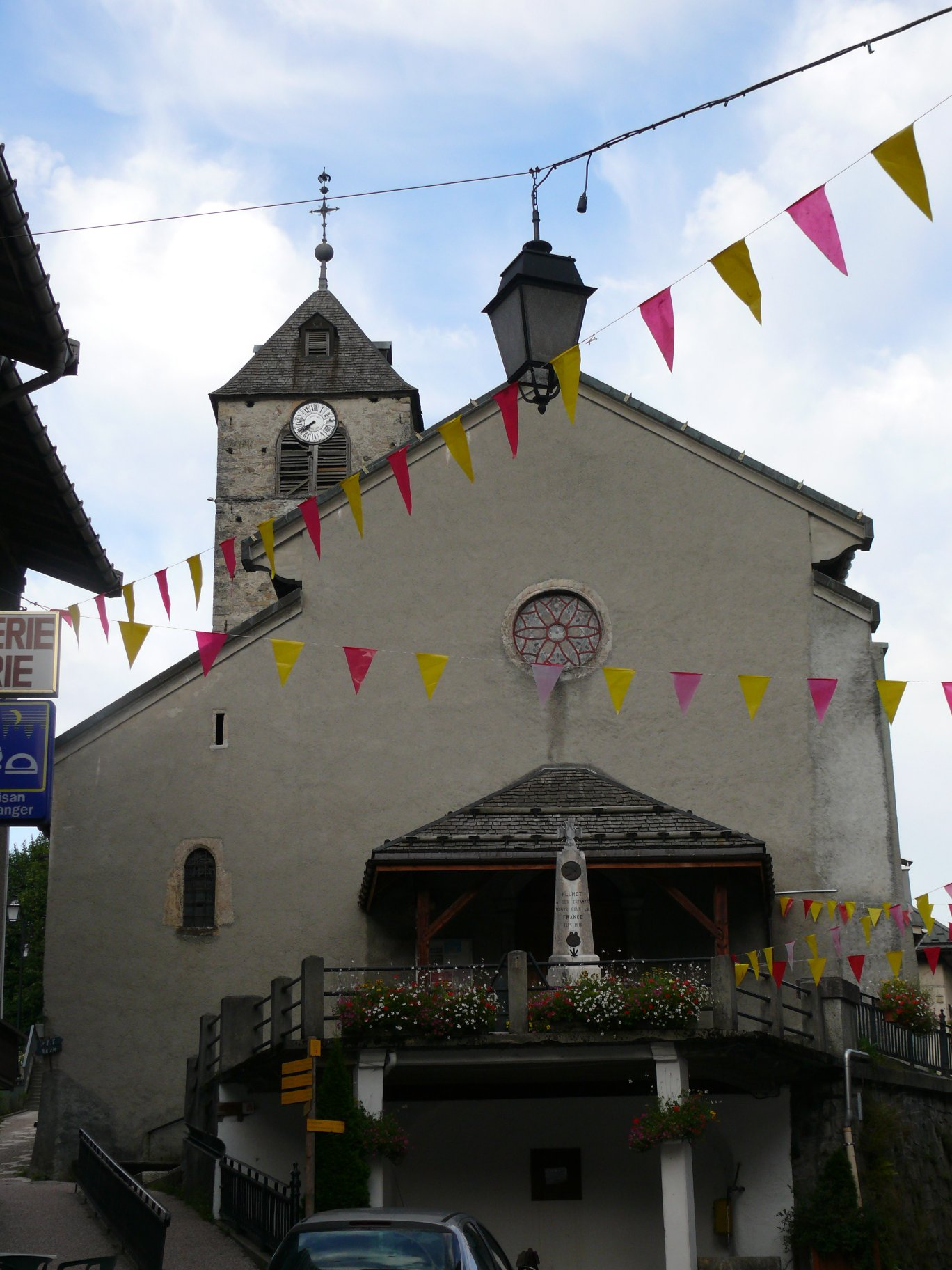 Saint-Theodule's church of Flumet (Savoie, Rhône-Alpes, France).